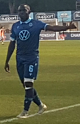 Canadian soccer player Chrisnovic N'sa (right, #6) and other players of the HFX Wanderers after a 2019 Canadian Championship match at Wanderers Grounds in Halifax, Nova Scotia, on 10 July 2019.